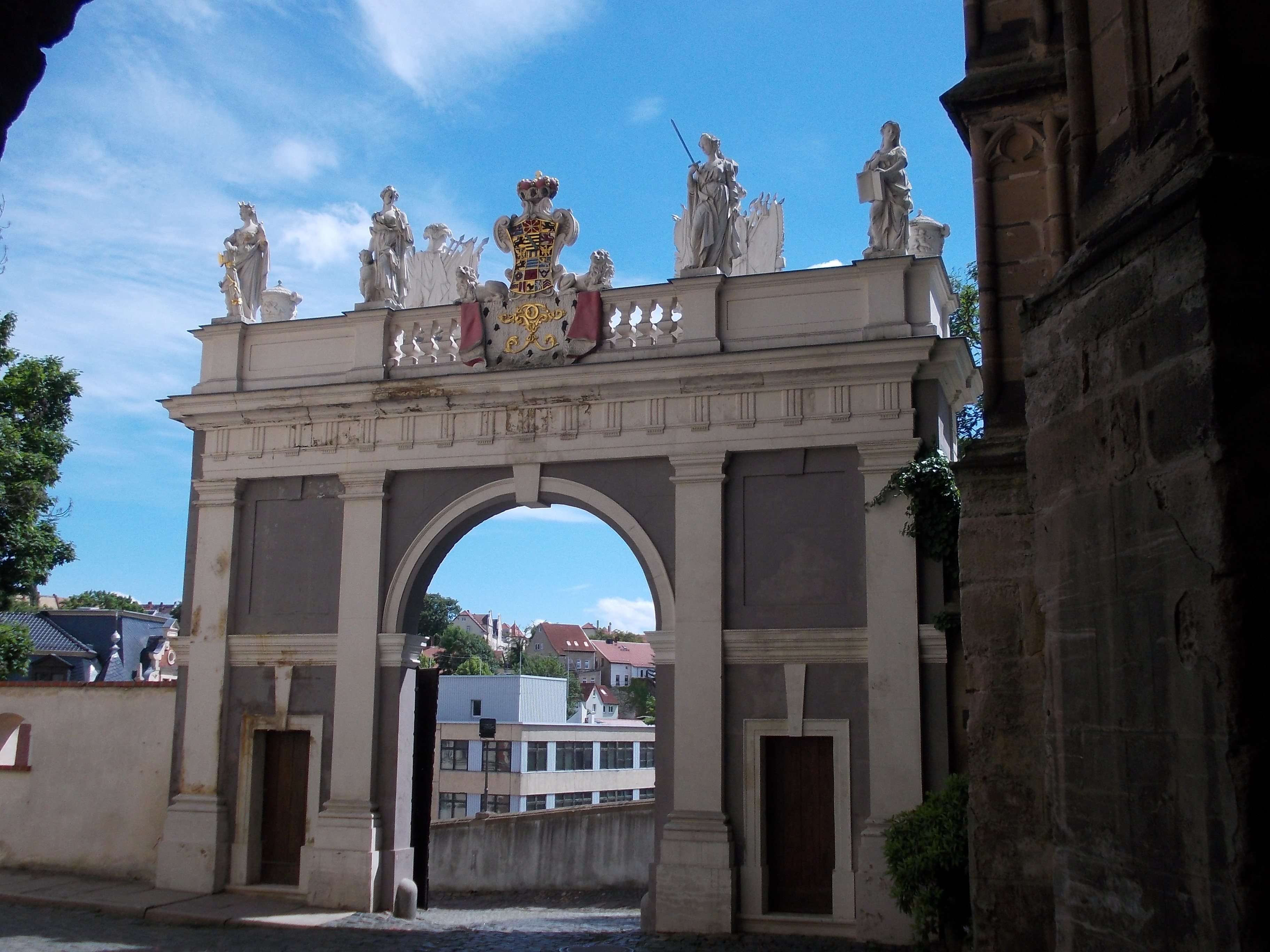 Triumphal gate of Altenburg Castle (Thuringia)